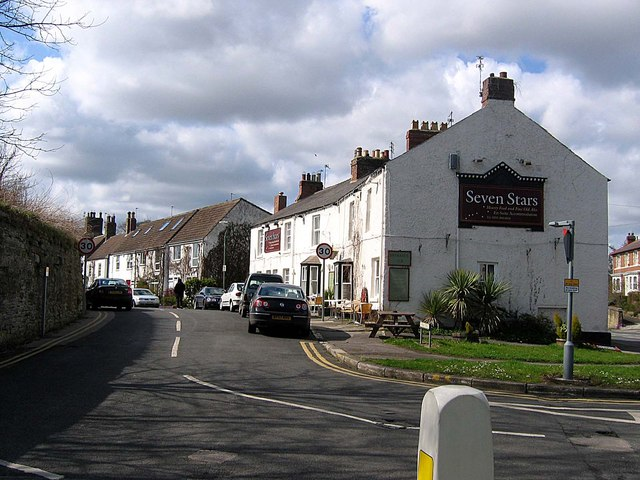 Seven Stars Public House